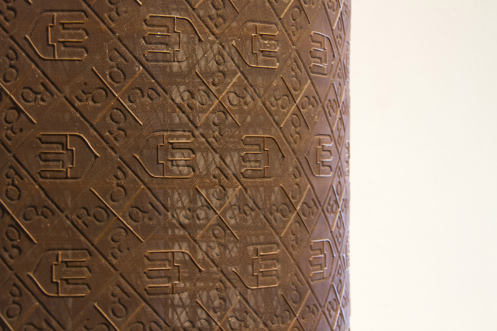 Close up photo of a dandy roll having elements combined for multi tone and highlight watermarks.